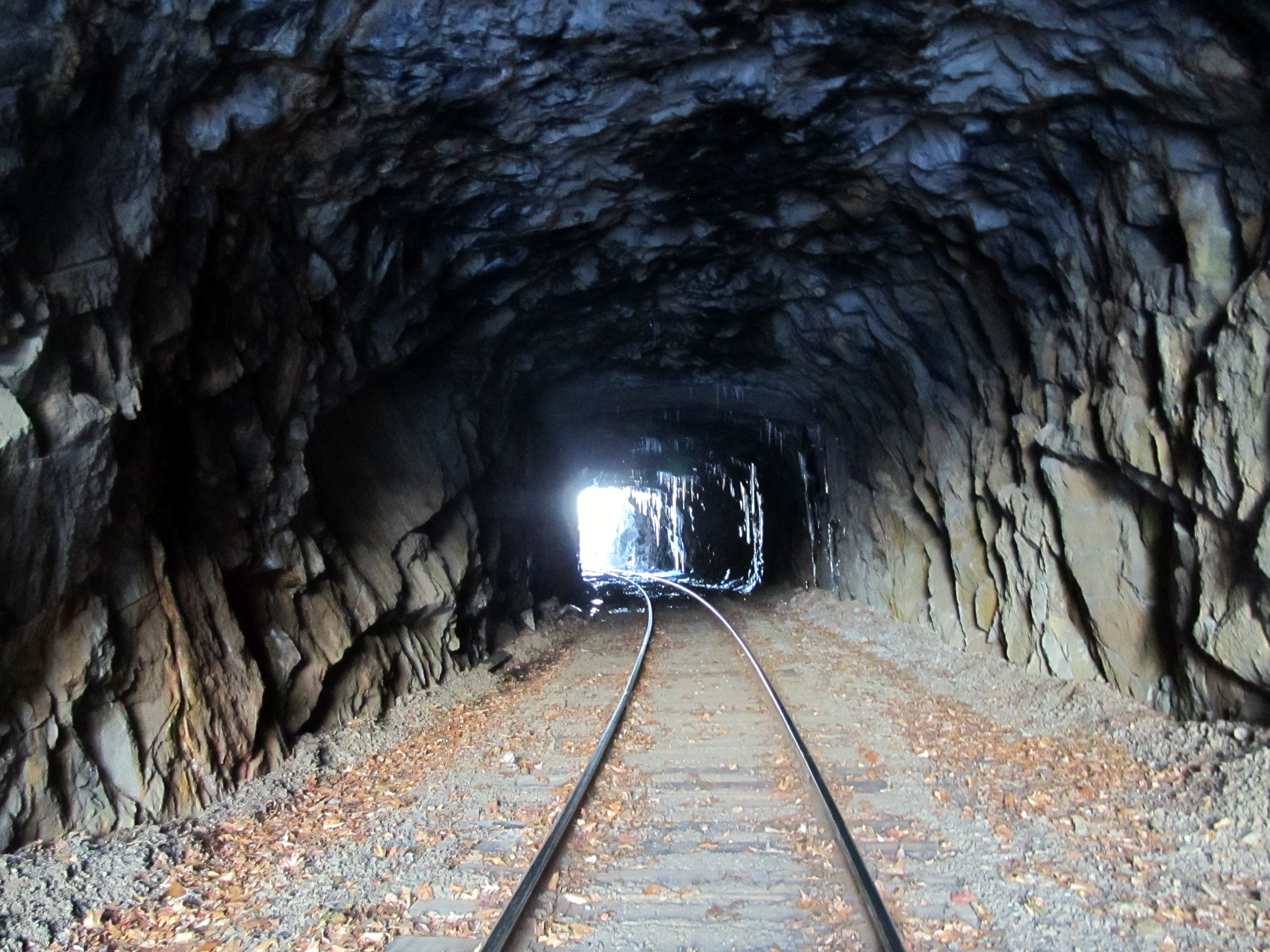 Interior of the Taft Tunnel, facing east from the west end, in December 2017